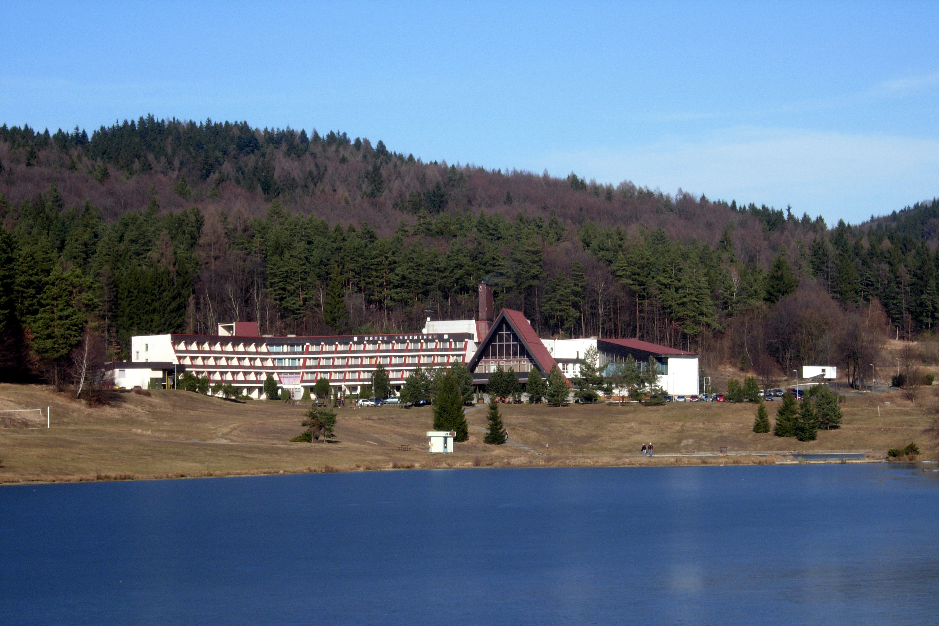 Hotel Vsenina, Czech Republic